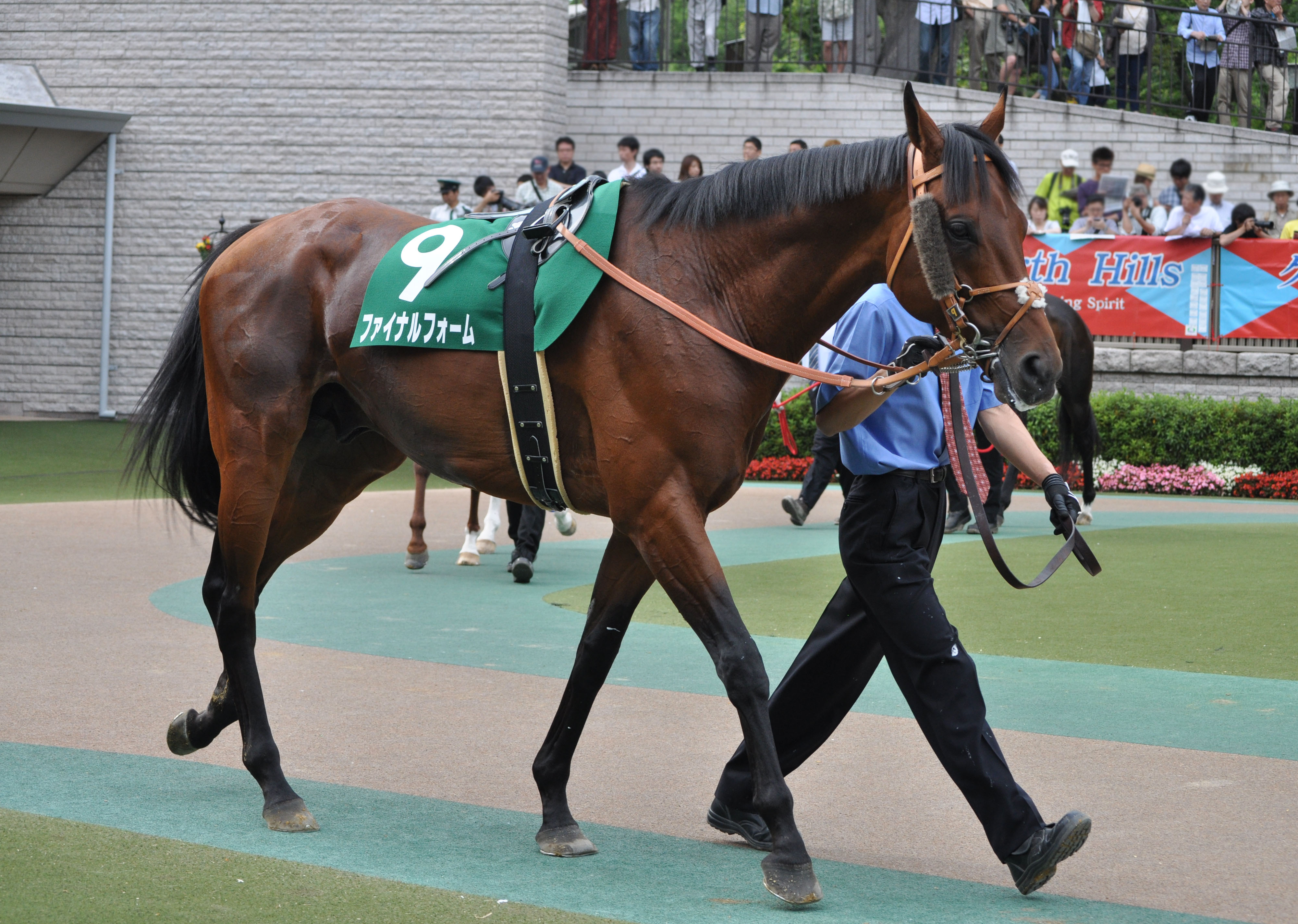 Japanese racehorse FinalForm at Tokyo racecourse(2013-06-09).